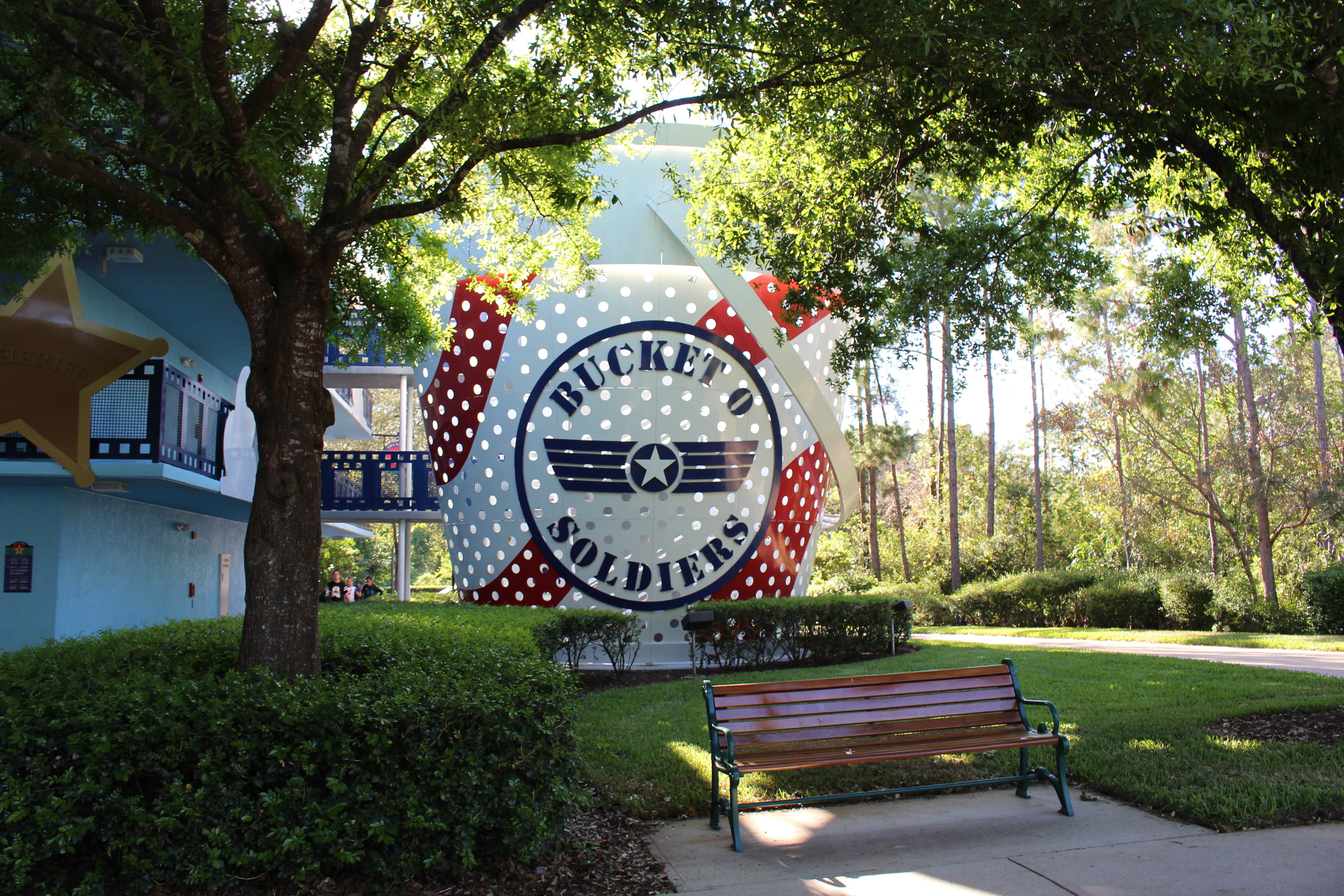 Disney's All-Star Movie Resort, Osceola County, Florida